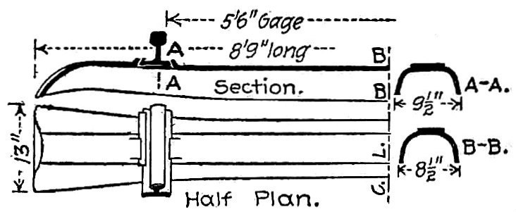 Dimensioned half plan and section of a steel railway cross-tie (sleeper).